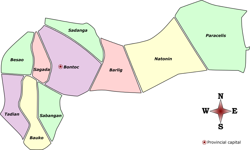 Labelled colored map of Mountain Province, showing its component municipalities.